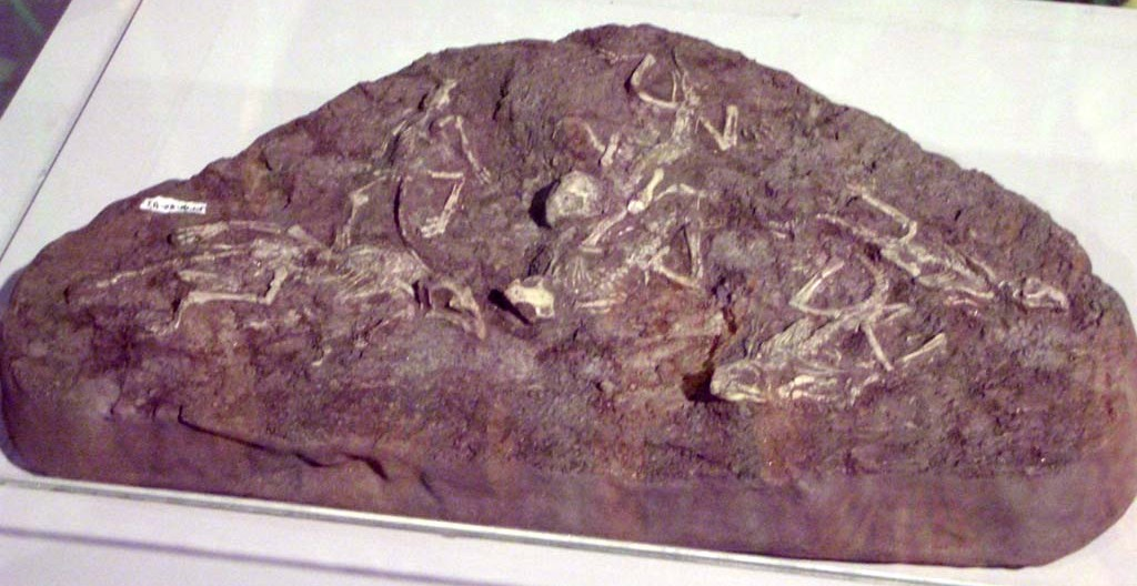 Hongshanosaurus houi fossil displayed in Hong Kong Science Museum